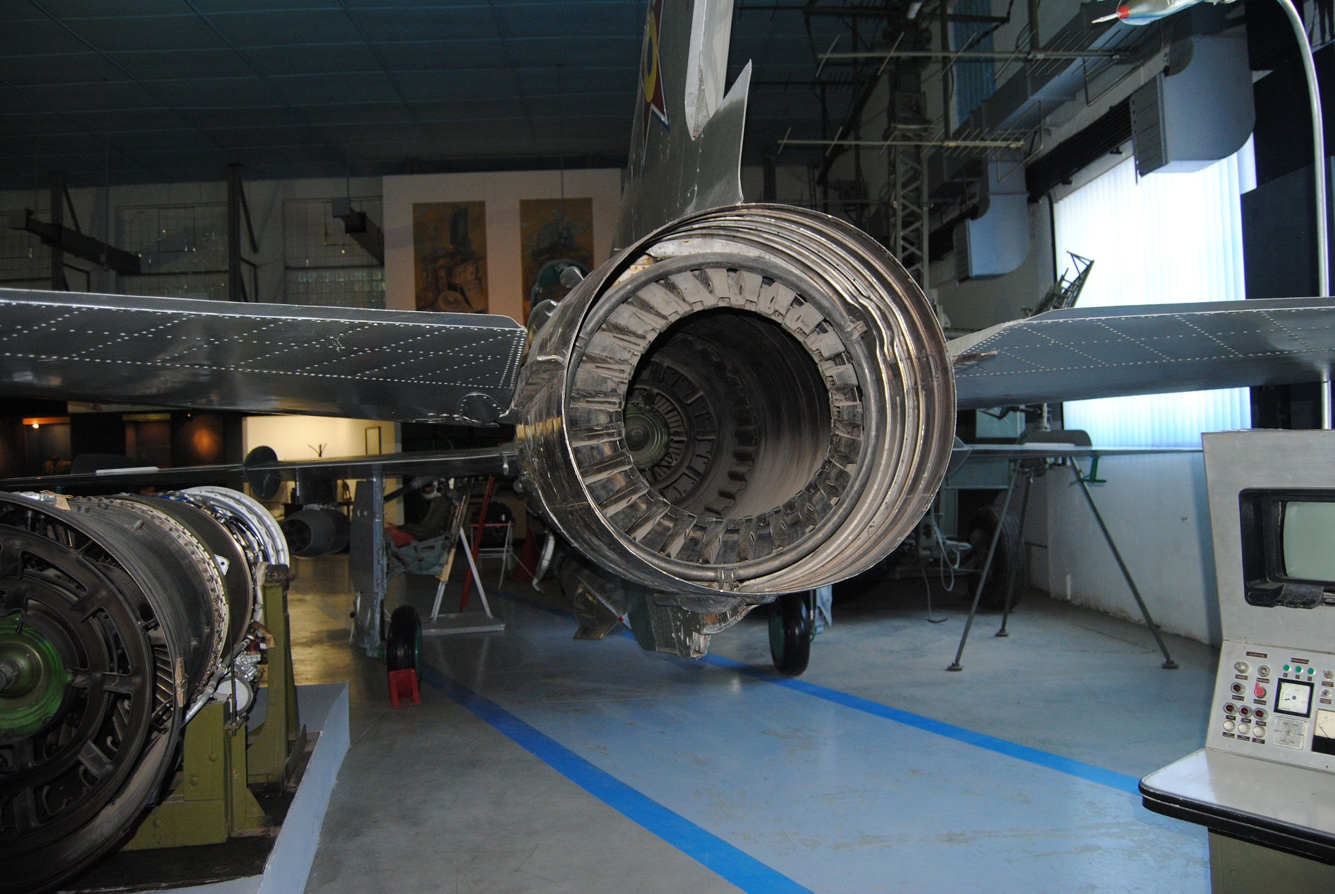 Back of a MiG-21 at the Aviation Museum in Bucharest.